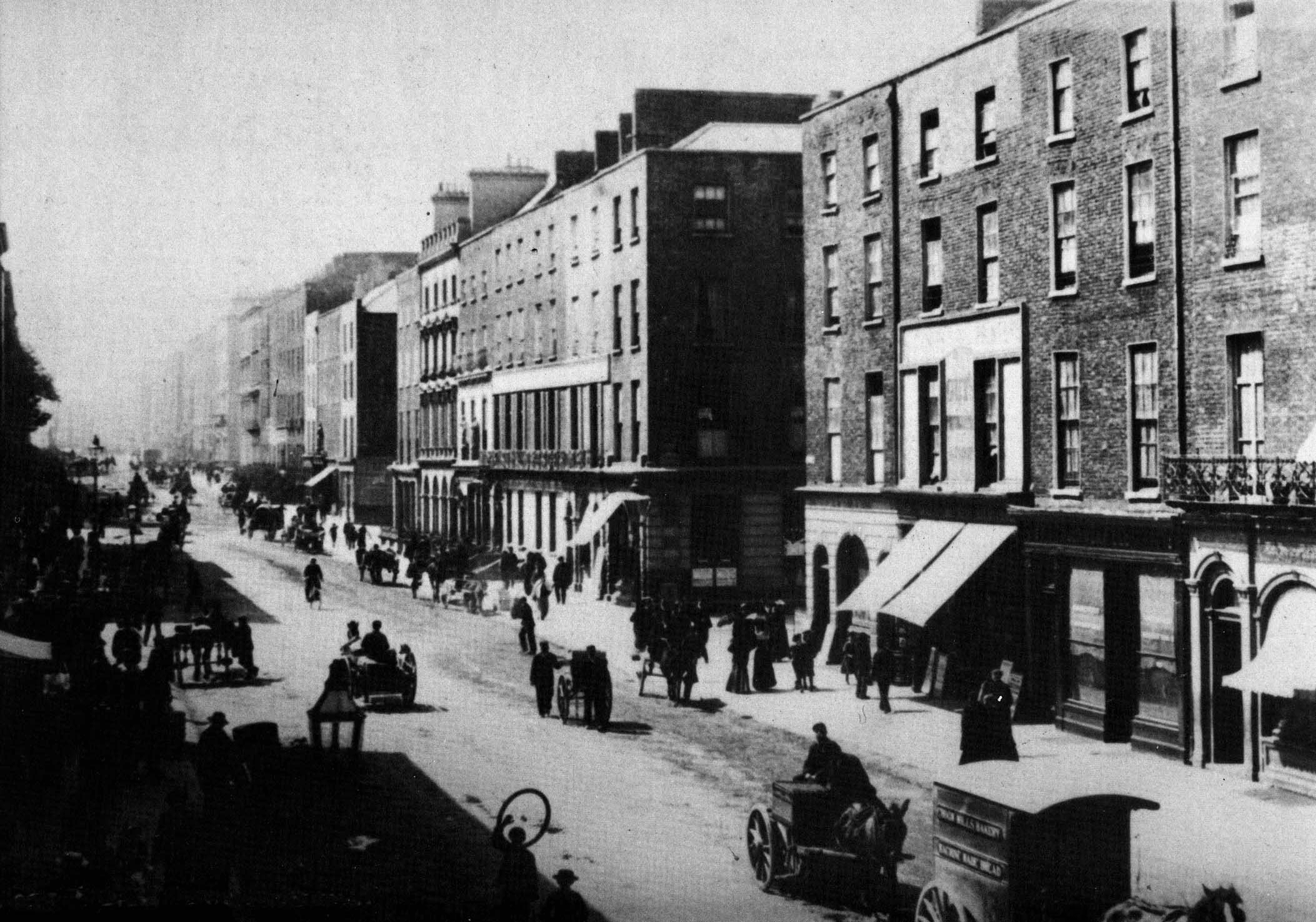 Sraid Sheoirse, Luimneach c.1900